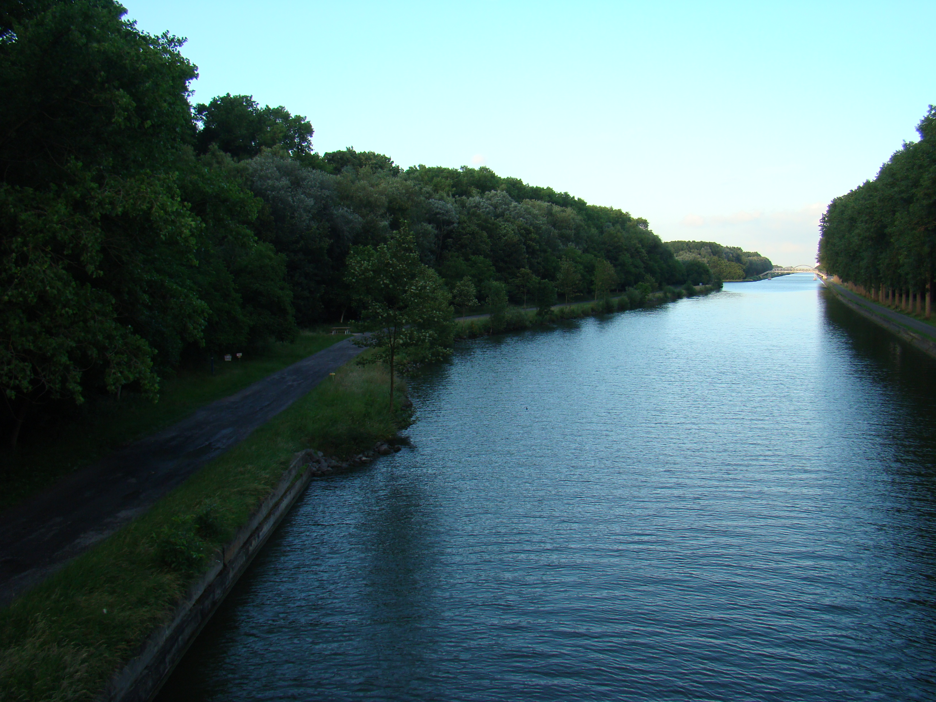 Canal Roeselare-Leie From Wantebrug Oostrozebeke (West Flanders, Belgium)